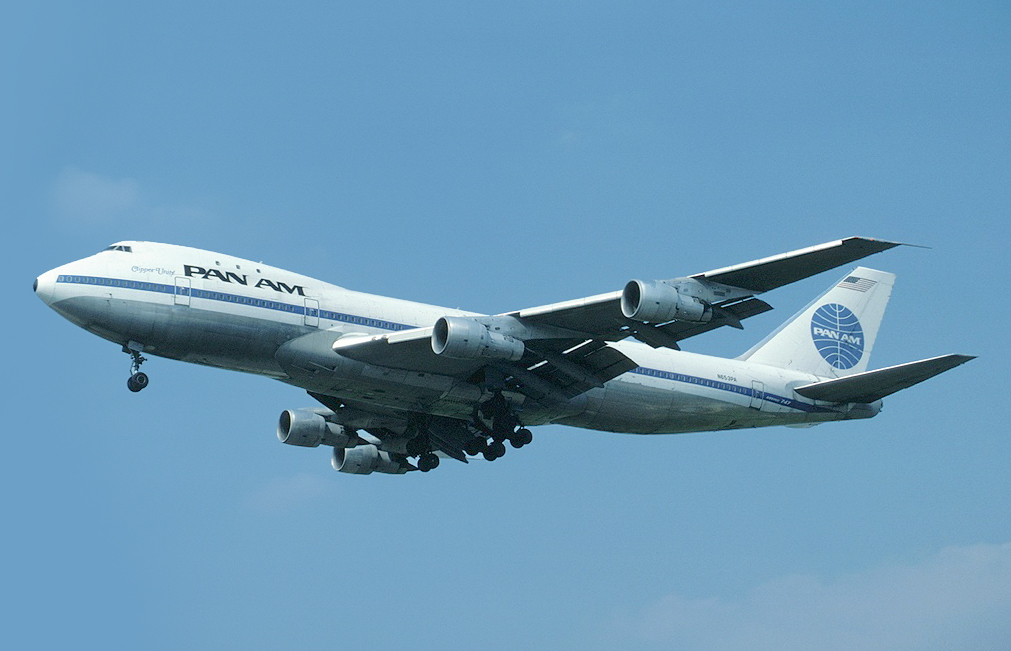 Pan Am Boeing 747-100 N653PA (cn 20348/106) "Clipper Unity"